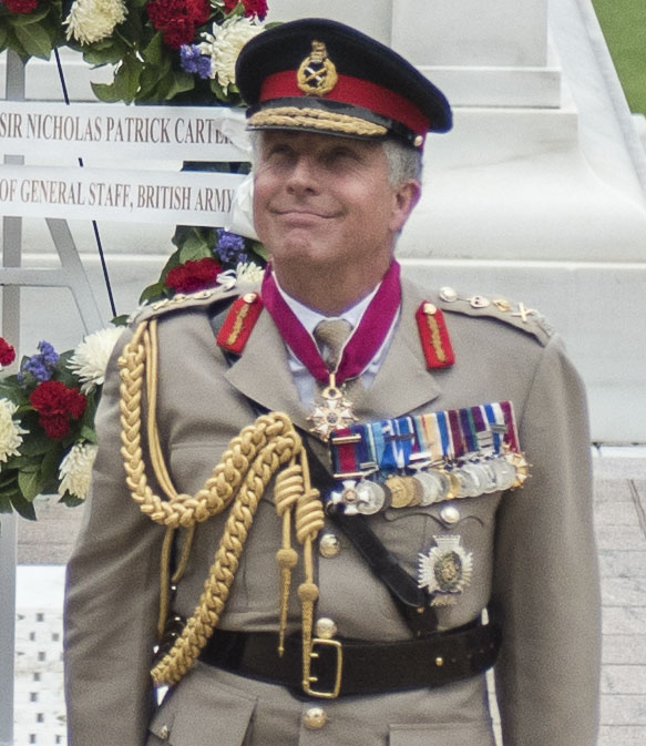 British Chief of the General Staff, Gen. Sir Nicholas Carter, participate in an Army Full Honors Wreath-Laying Ceremony at the Tomb of the Unknown Soldier, Arlington National Cemetery, Arlington, Virginia, May 14, 2018. Carter also toured the Memorial Amphitheater Display Room and met with senior U.S. Army leadership.